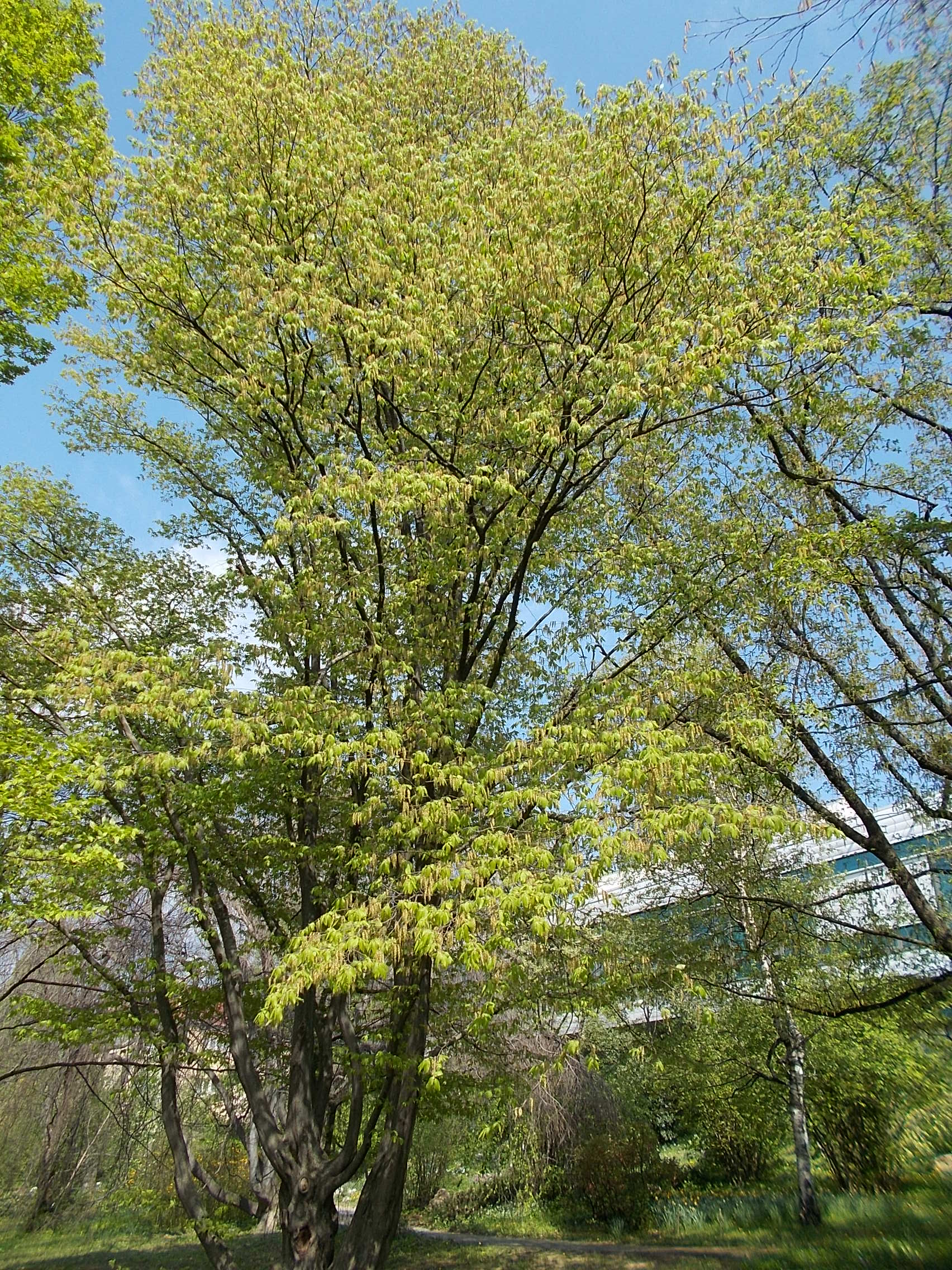 Buda Arboretum. Almost eight hectares area is planted around buildings. The first species are here since 1893. Can see more than 1400 ligneous species. Several rare exotic plants growing in the garden thanks to favourable conditions. - Open to the Public. - To get in: take tram no. 61 from Móricz Zsigmond körtér (Square) and get off at 2nd stop. (Source: Budapest's Protected Natural Heritage brochure. Edited by EU Phare program. ISBN 963 04 7152 3). - Budapest District IX., Hungary.